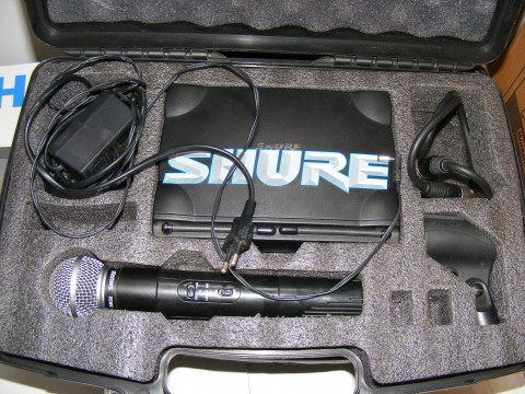 Free Photos – Wireless Microphone – Shure SM58 More photos and details about possible copyright or licensing restrictions here: Full Size Up to 3072 x 2304 pixels Information Regarding Copyright